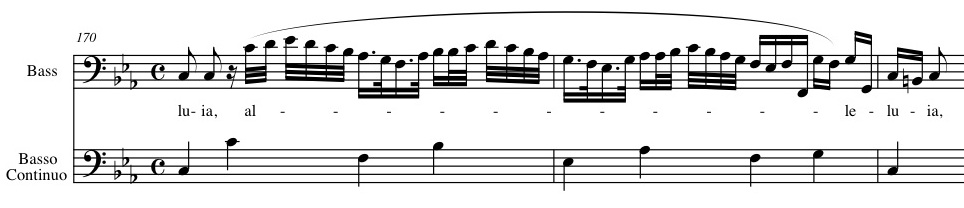 Description: Bars 170-171 of Dieterich Buxtehude's cantata Der Herr ist mit mir, BuxWV 15; showing a long bass passage and the basso continuo, with other parts omitted Note: Original file created on Finale 2006.r3 for Macintosh by Trisdee na Patalung